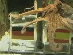 Paul the Octopus correctly predicts a win by Spain over Germany in the 2010 FIFA World Cup semi-final. Screenshot taken from VOA news video.